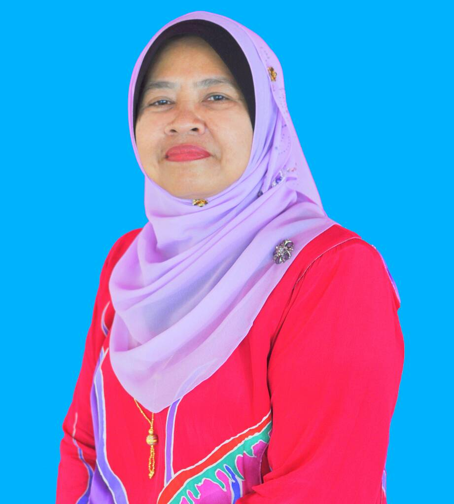 Puan Hajah Kamariah bt othman